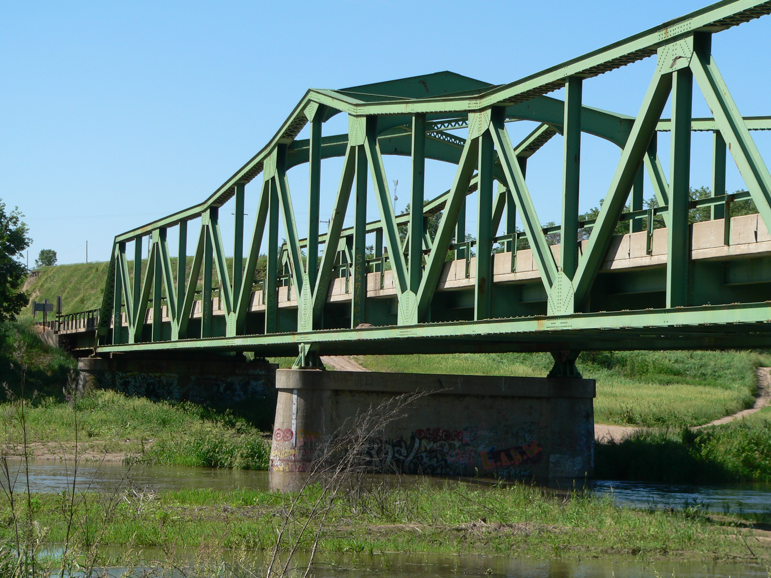 South end of Red Cloud Bridge, carrying U.S. Highway 281 across the Republican River south of Red Cloud, Nebraska; seen from the northeast (downstream is east). The continuous truss bridge was built in 1935; it is listed in the National Register of Historic Places.